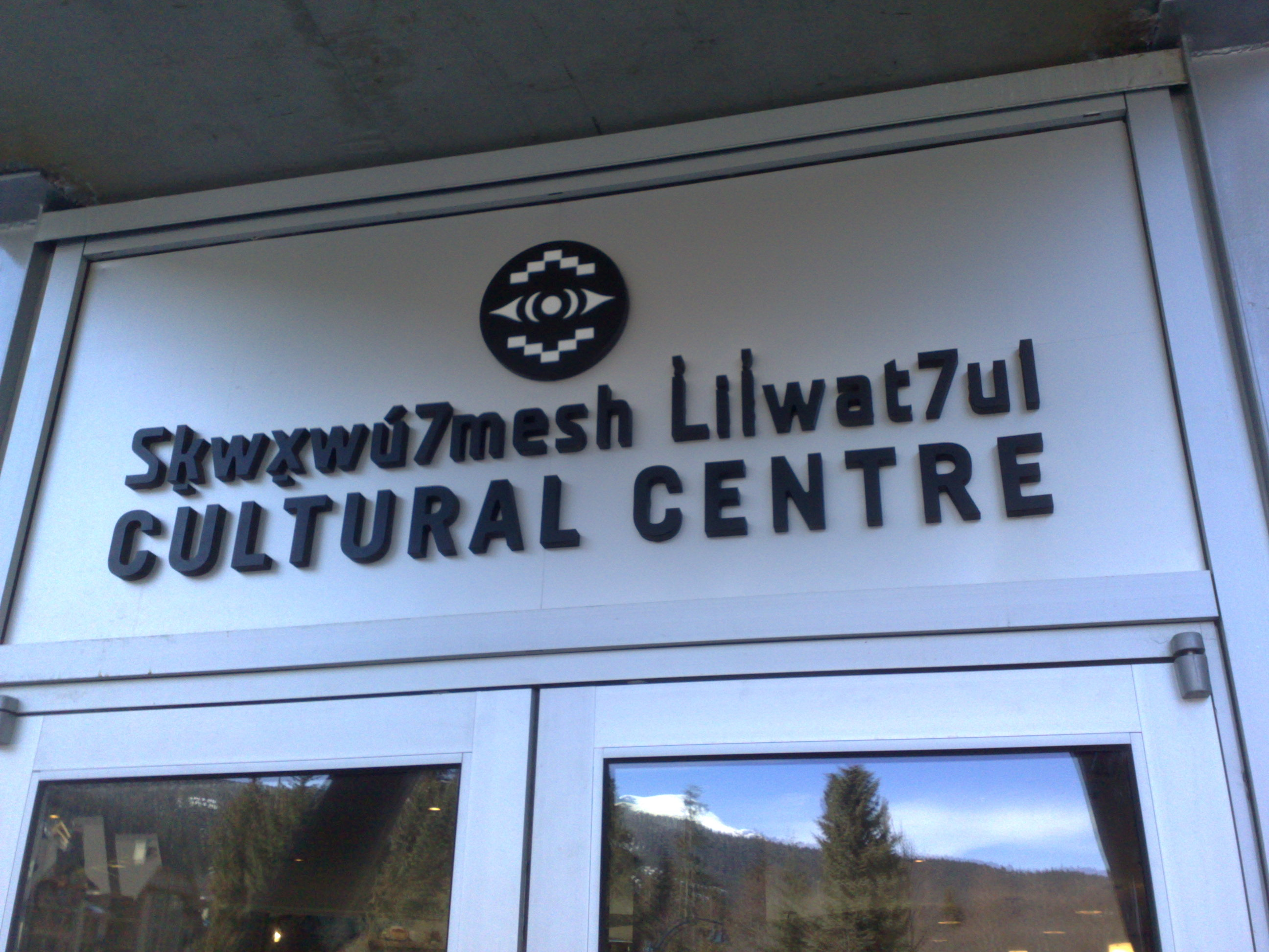 Sign at Squamish Lil'wat Cultural Centre